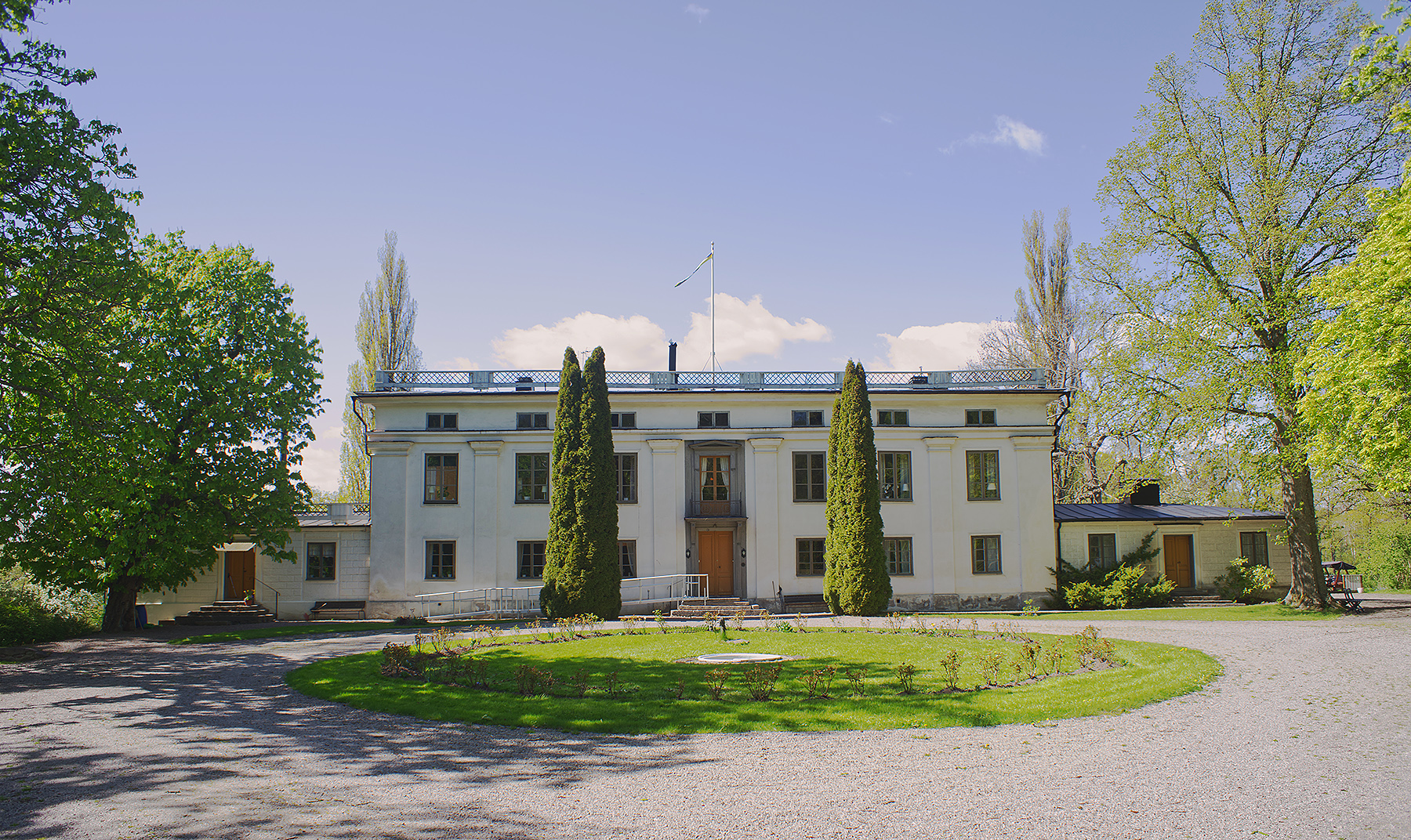 East facade with main entrance